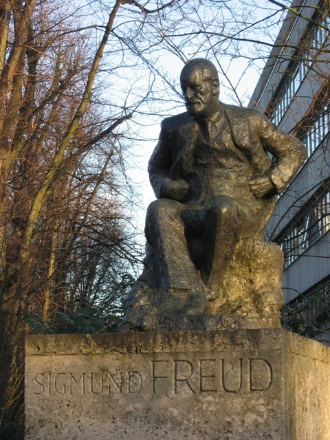 Statue of Sigmund Freud. See 1106143. Freud's psychological theories are hotly disputed today - and